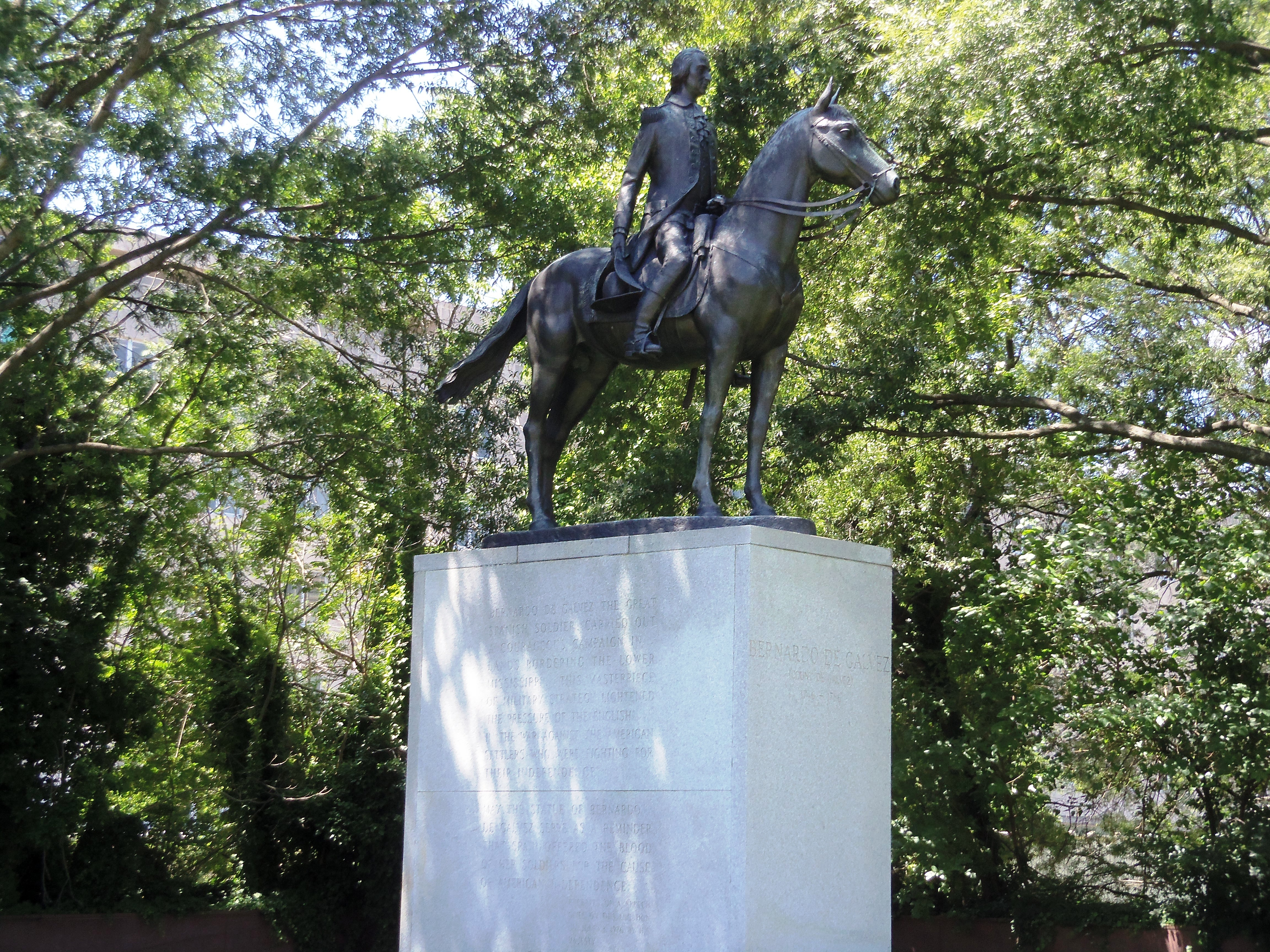 The statue of Bernardo de Gálvez is among the statues of the Liberators of western-hemisphere countries from colonial rule found along Virginia Avenue, N.W., in Washington, D.C.